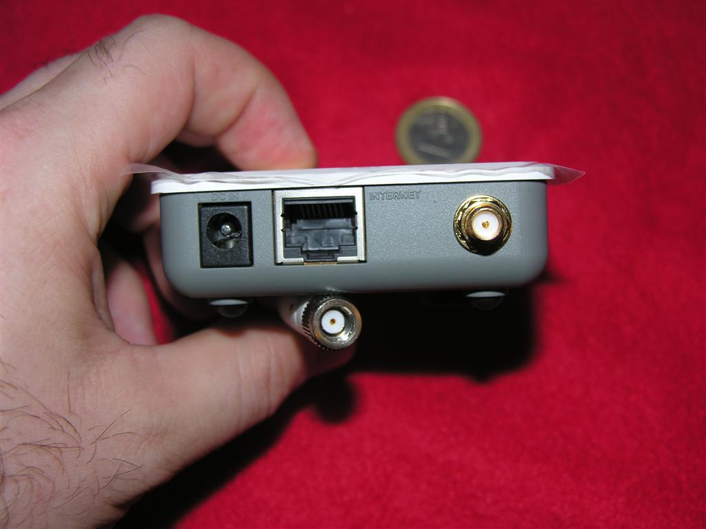 Author: Feliciano Juarez Source: Nikon 8800